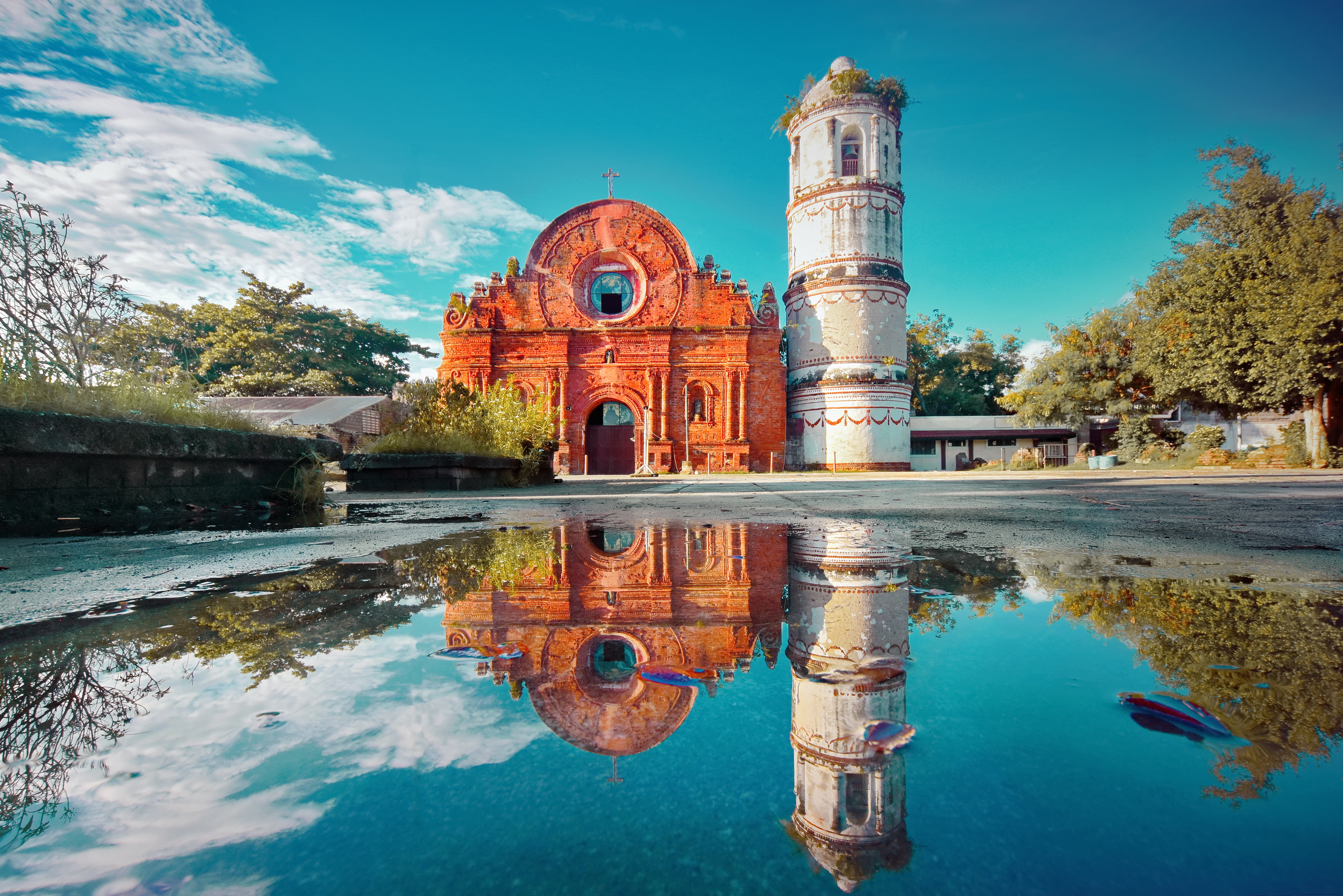 The San Matias Parish Church (Spanish: Iglesia Parroquial de San Matías), commonly known as Tumauini Church, is a Roman Catholic church in the municipality of Tumauini, Isabela, Philippines. Tumauini Church was declared a National Cultural Treasure by the National Museum of the Philippines and has also been considered for the UNESCO World Heritage Tentative List since 2006 under the collective group of Baroque Churches of the Philippines. Tumauini Church has an ultra-baroque style of architecture. It notable for its use of red bricks both on its exterior and interior. Another identifying feature of the church is its tiered belfry which resembles a wedding cake.